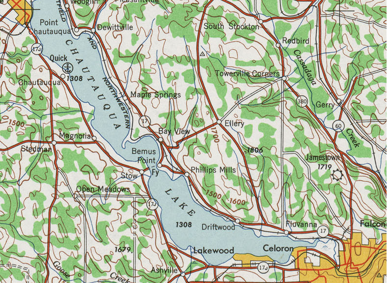 1948 topographic quadrangle of former New York State Route 17J